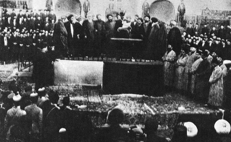 Parliament of Iran (Majlis Melli) Reza Shah being sworn into office as Shah. First upload fa.wikipedia by دانقولا .